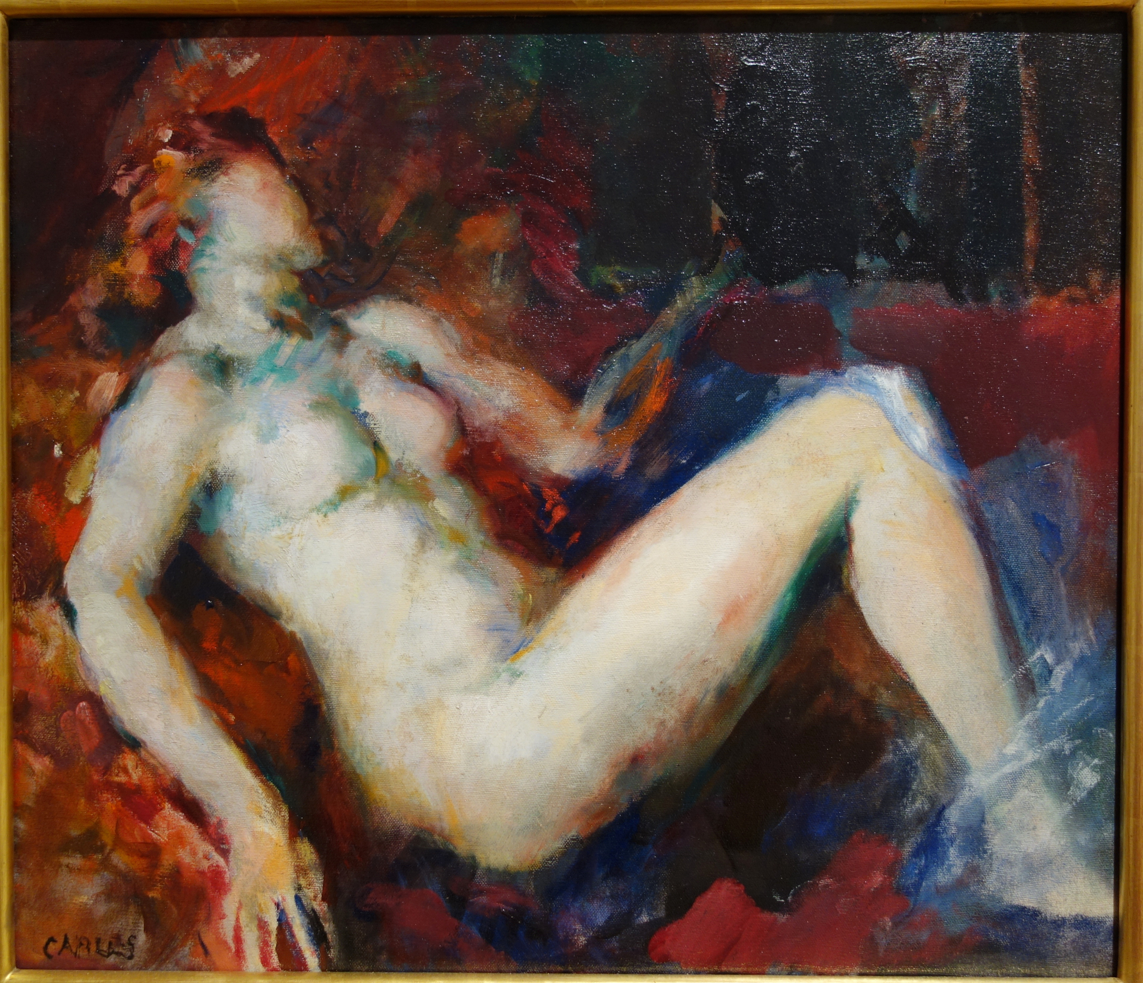 Exhibited in the New Britain Museum of American Art, New Britain, Connecticut, USA. This artwork is in the public domain because it was first published in the United States before 1923.